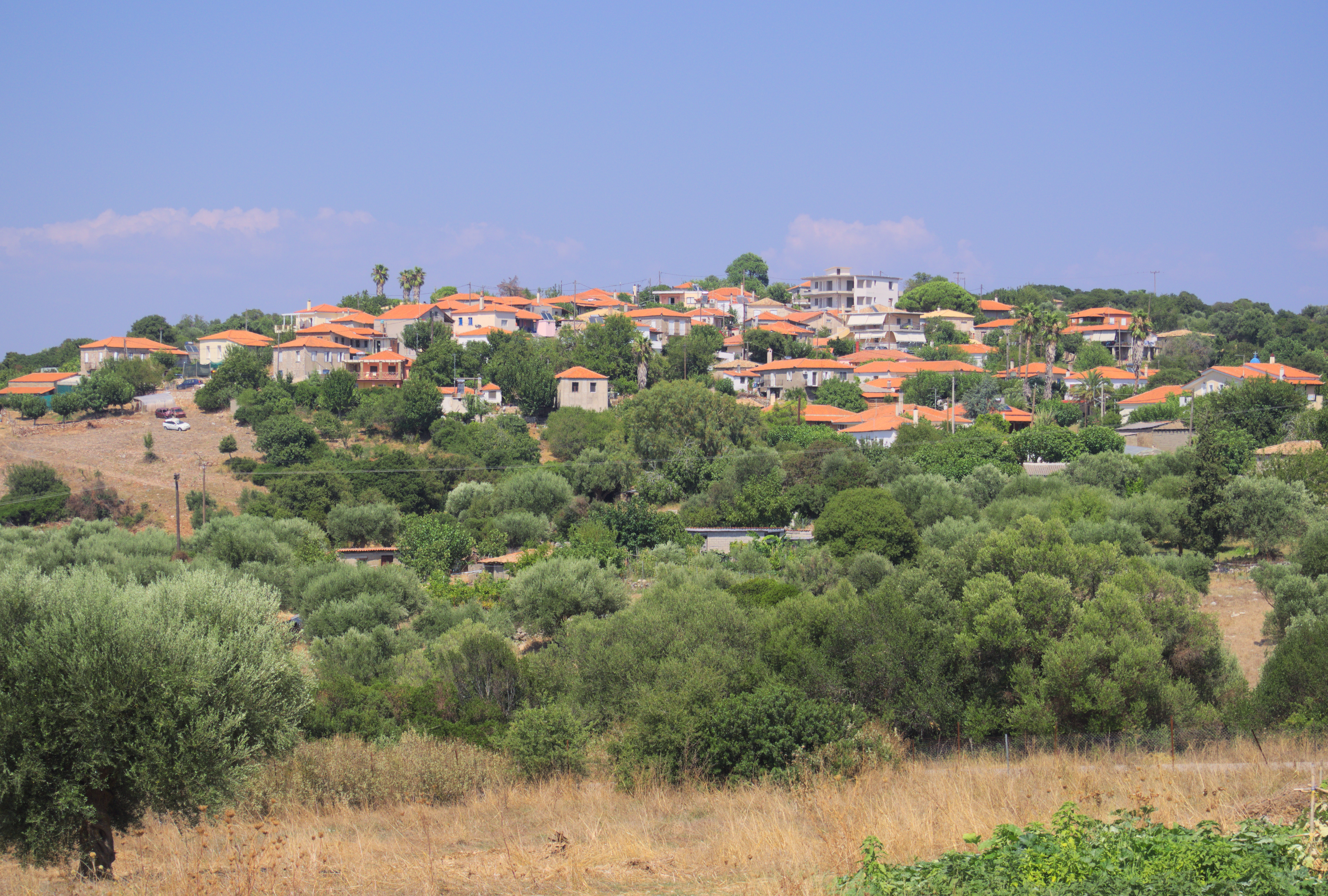 View of Yameia from southwest.